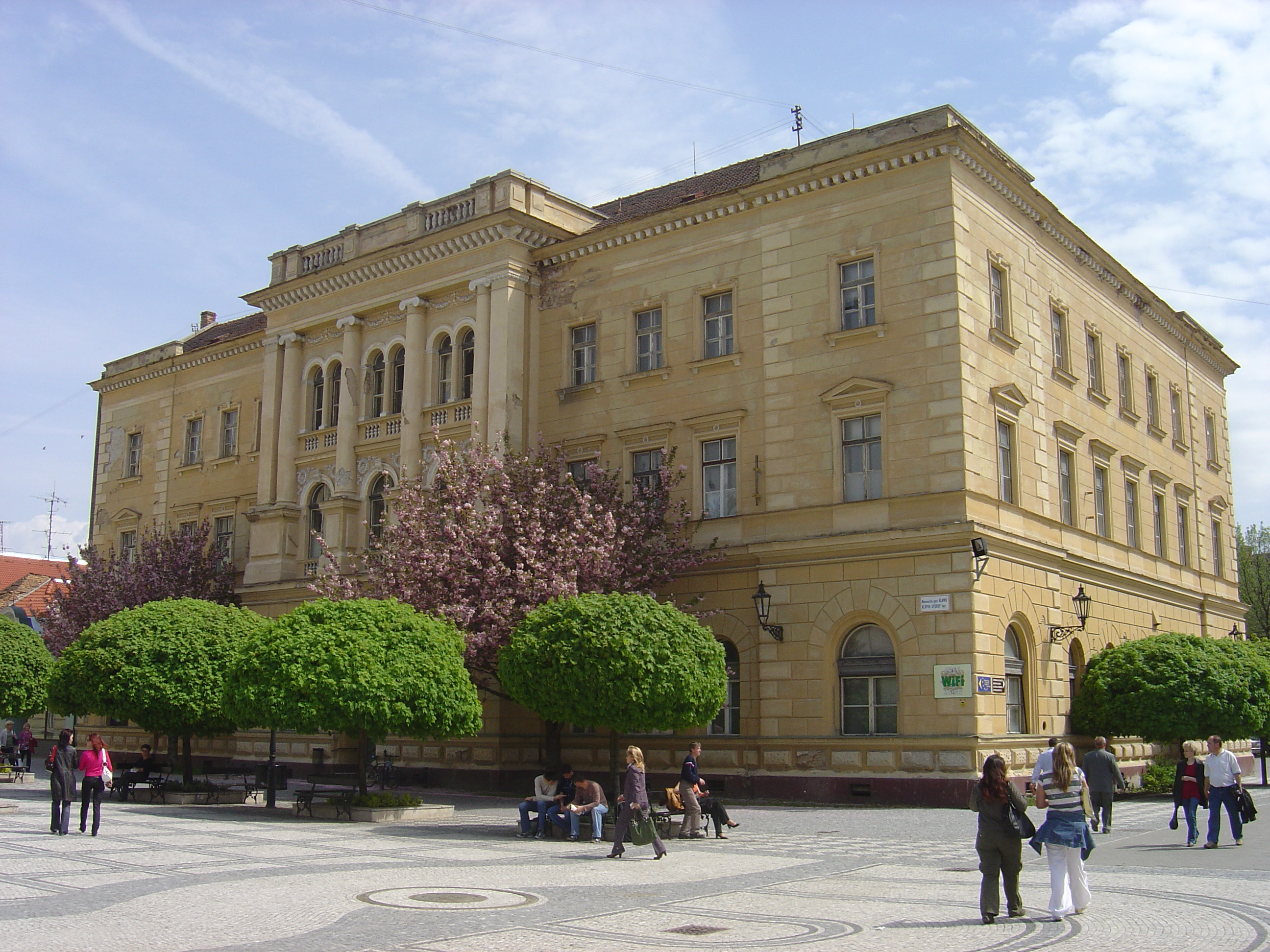 Komárno, Slovakia